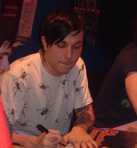 Frank Iero, at a Rolling Stone signing in Chicago on December 15th, 2006. Gosh, he's amazing! :)